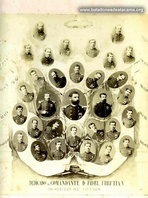 Oficiales del Rgto. Lautaro